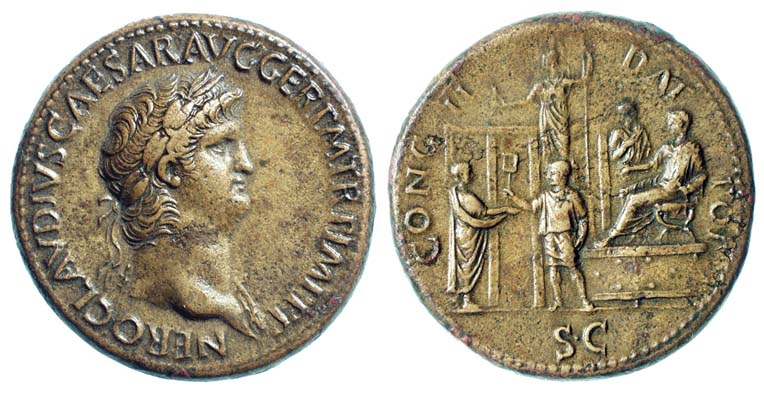 Nero AE Sestertius. 64-66 AD. NERO CLAVDIVS CAESAR AVG GER P M TR P IMP P P, laureate head right / CONG II DAT POP S-C, Nero, bare-headed & togate, seated left on curule chair on low platform, prefect standing behind him, on ground an attendant standing left distributes coins to a citizen holding out folds of his toga to receive them, Minerva standing before temple in background. BMC 139.